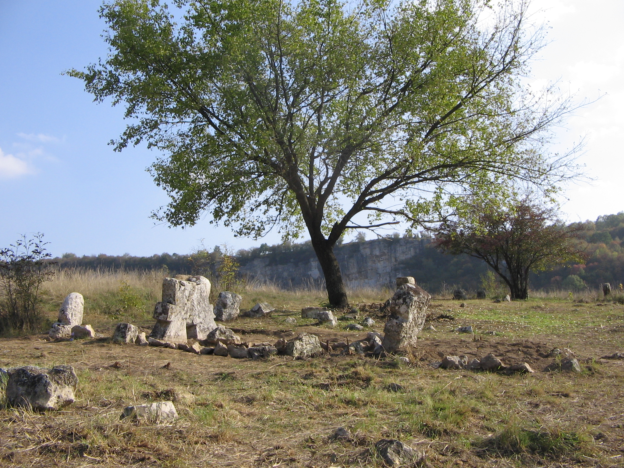 Old graveyard of village Nisovo, Bulgaria